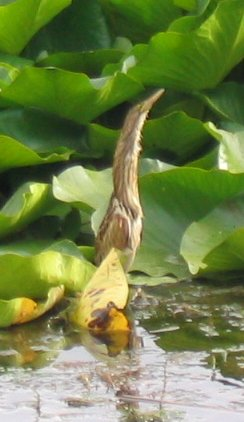 A Botaurus stellaris, italian common name Tarabuso, in the lake of Colfiorito, Italy.